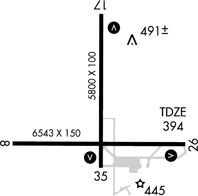 Airport diagram of Blythe Airport in Blythe, California